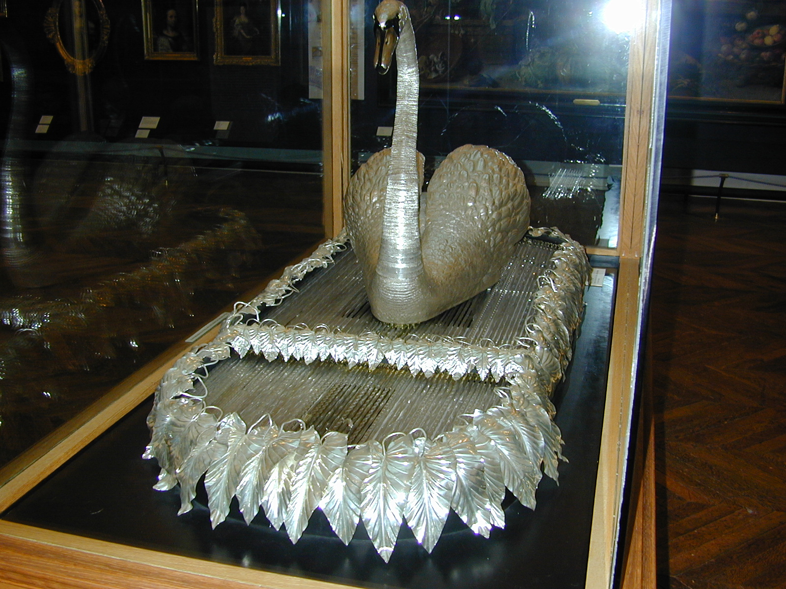 The Silver Swan at the Bowes Musem, Barnard Castle, Teesdale, County Durham, England. A small silver fish may be seen in the foreground. Bowes Museum Native nameBowes MuseumLocationBarnard Castle DL12 8NP United KingdomCoordinates54° 32′ 31″ N, 1° 54′ 55″ W Established1892WebsiteBowes MuseumAuthority control VIAF: 144880545 LCCN: no92011102 GND: 00442641X ULAN: 500307496 WorldCat